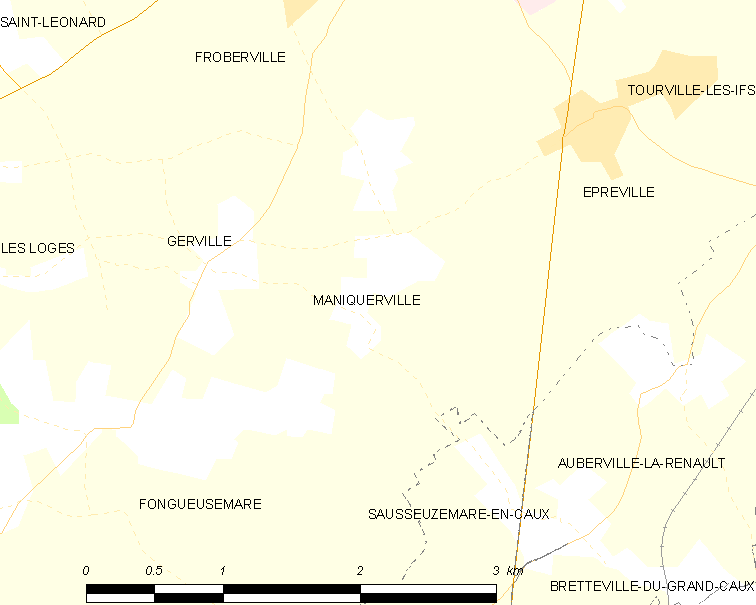 Map of French municipality Maniquerville